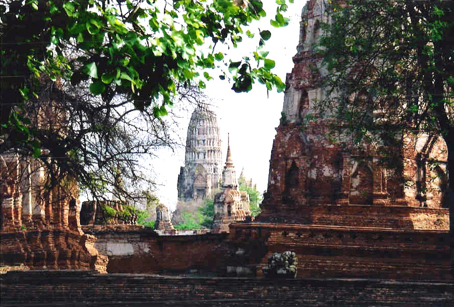 Ruins of the old city, Ayutthaya, after the Burmese invasion.